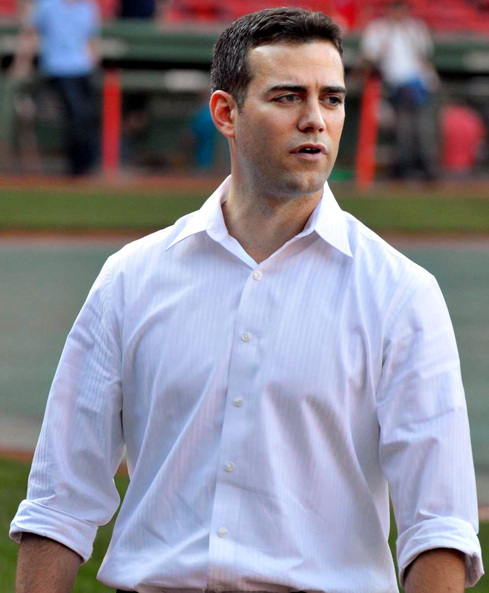 Red Sox GM Theo Epstein – Rays vs Red Sox 9/8/10